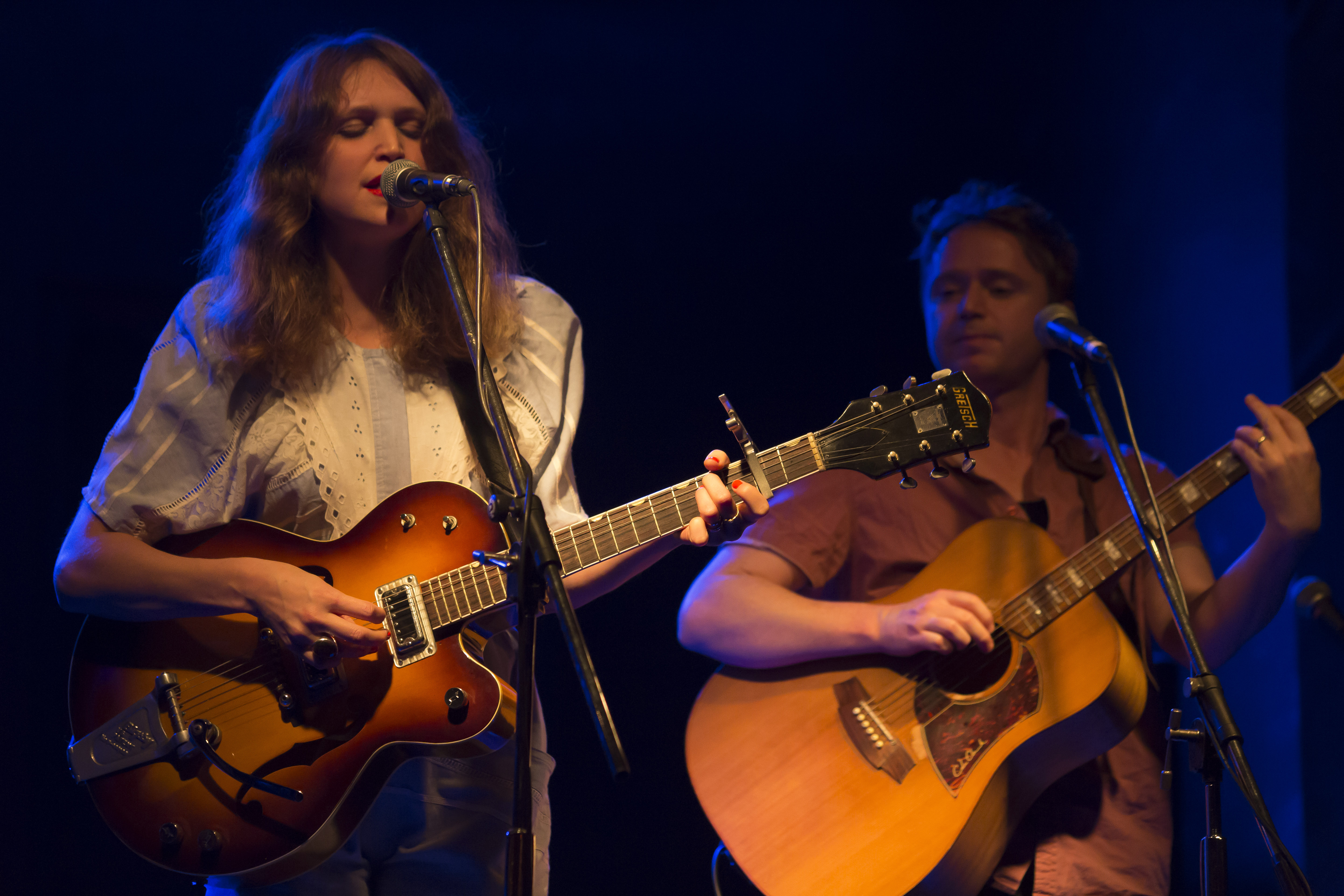 Emily Lubitz Tinpan Orange @ the Vanguard - 20th May 2016